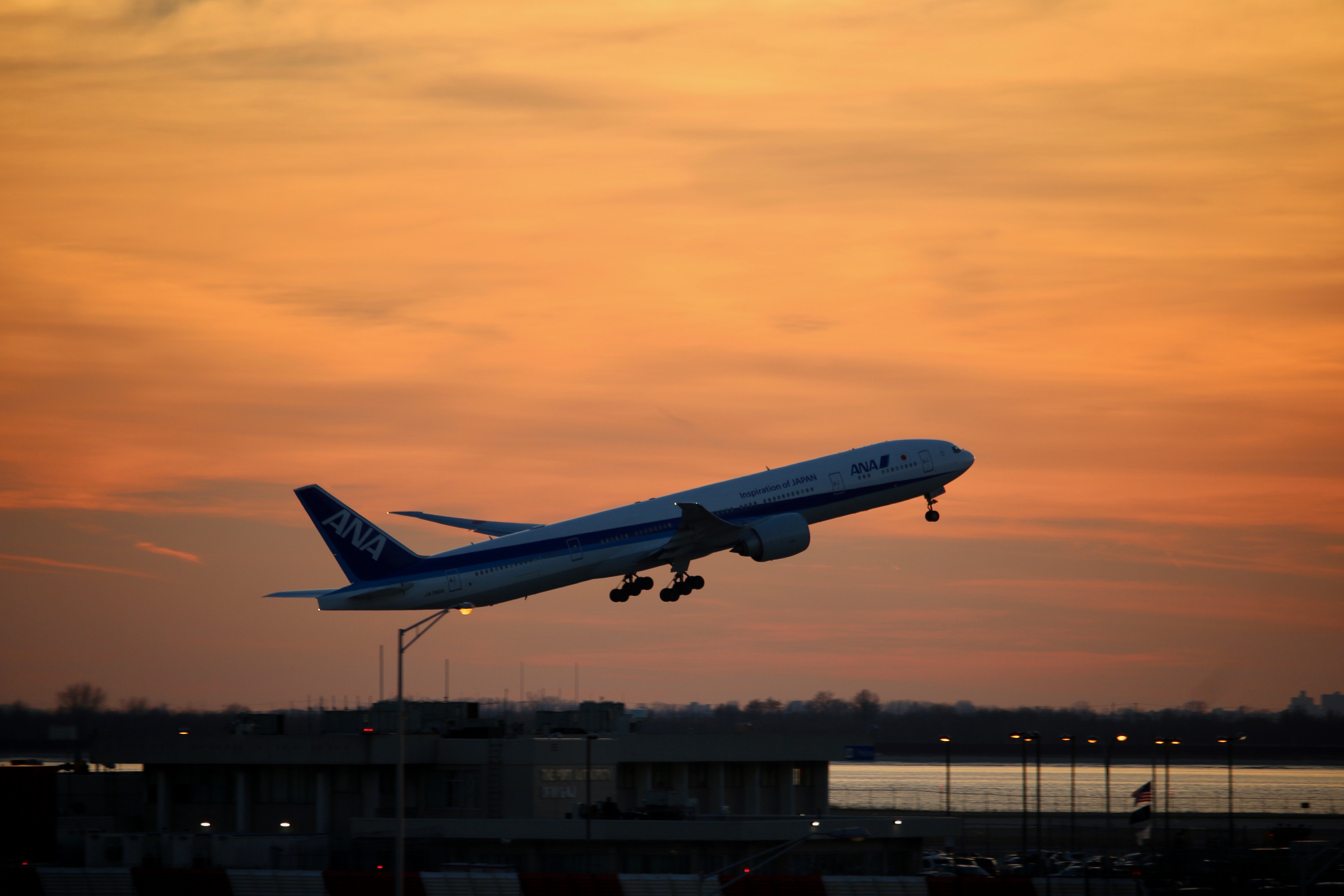 An All Nippon Airways 777-300 (JA790A) taking off from New York JFK Airport.